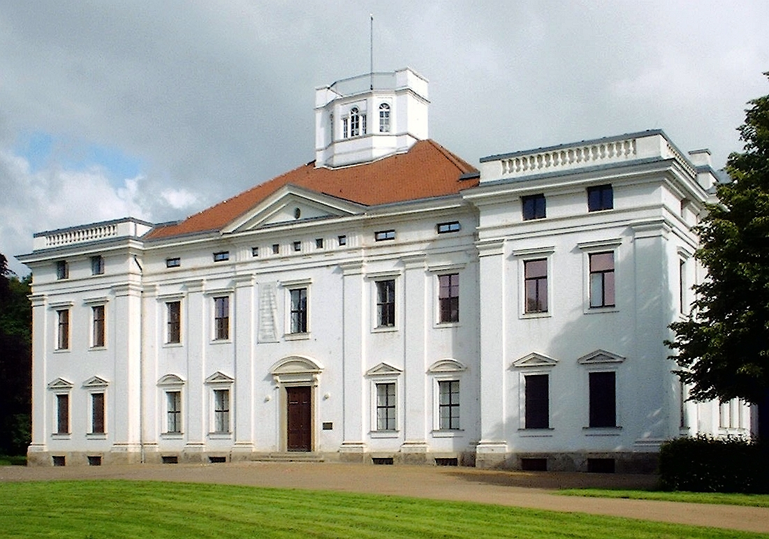 Palace Georgium in Dessau in Saxony-Anhalt, Germany